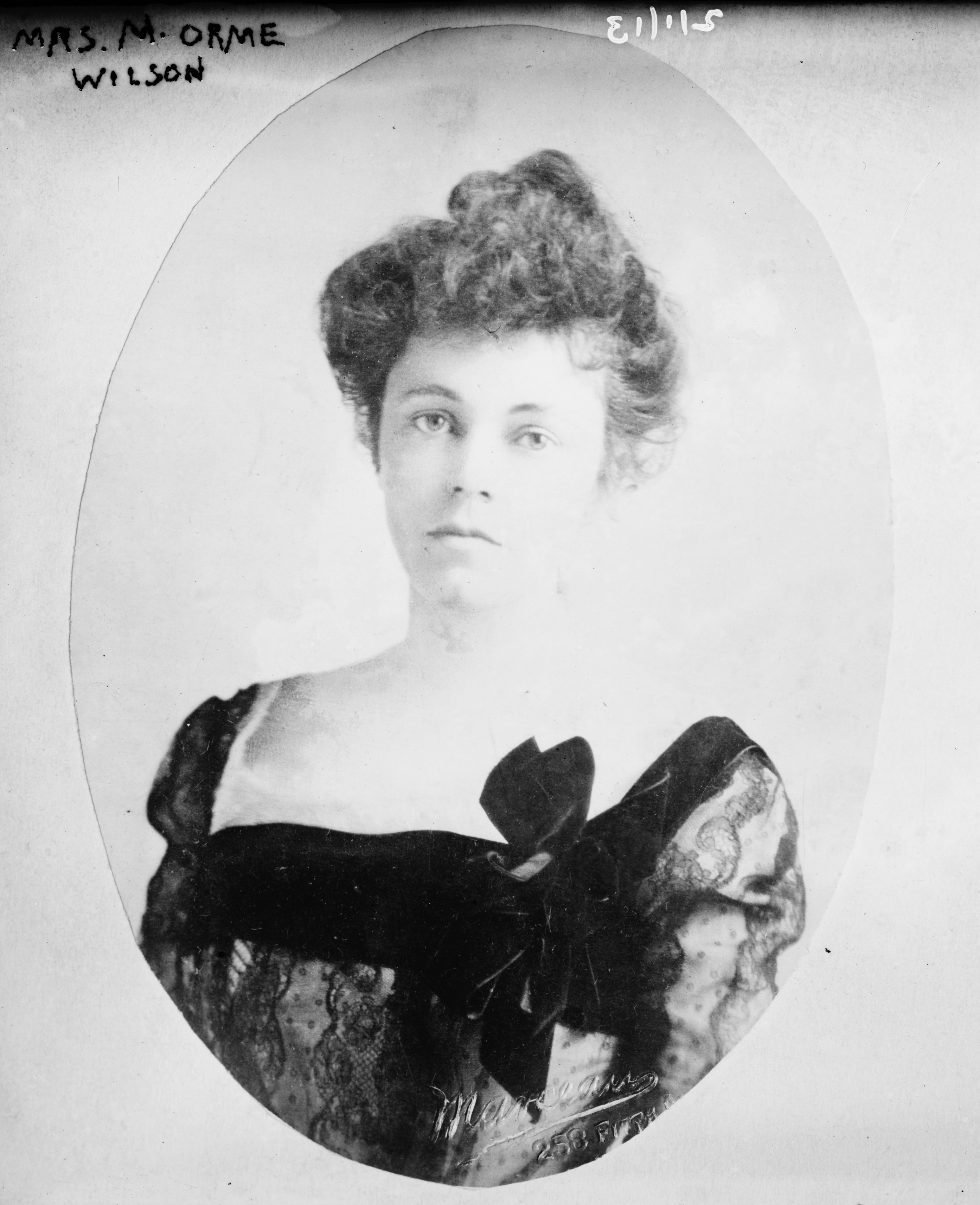 Title: Mrs. M. Orme Wilson Abstract/medium: 1 negative : glass ; 5 x 7 in. or smaller.